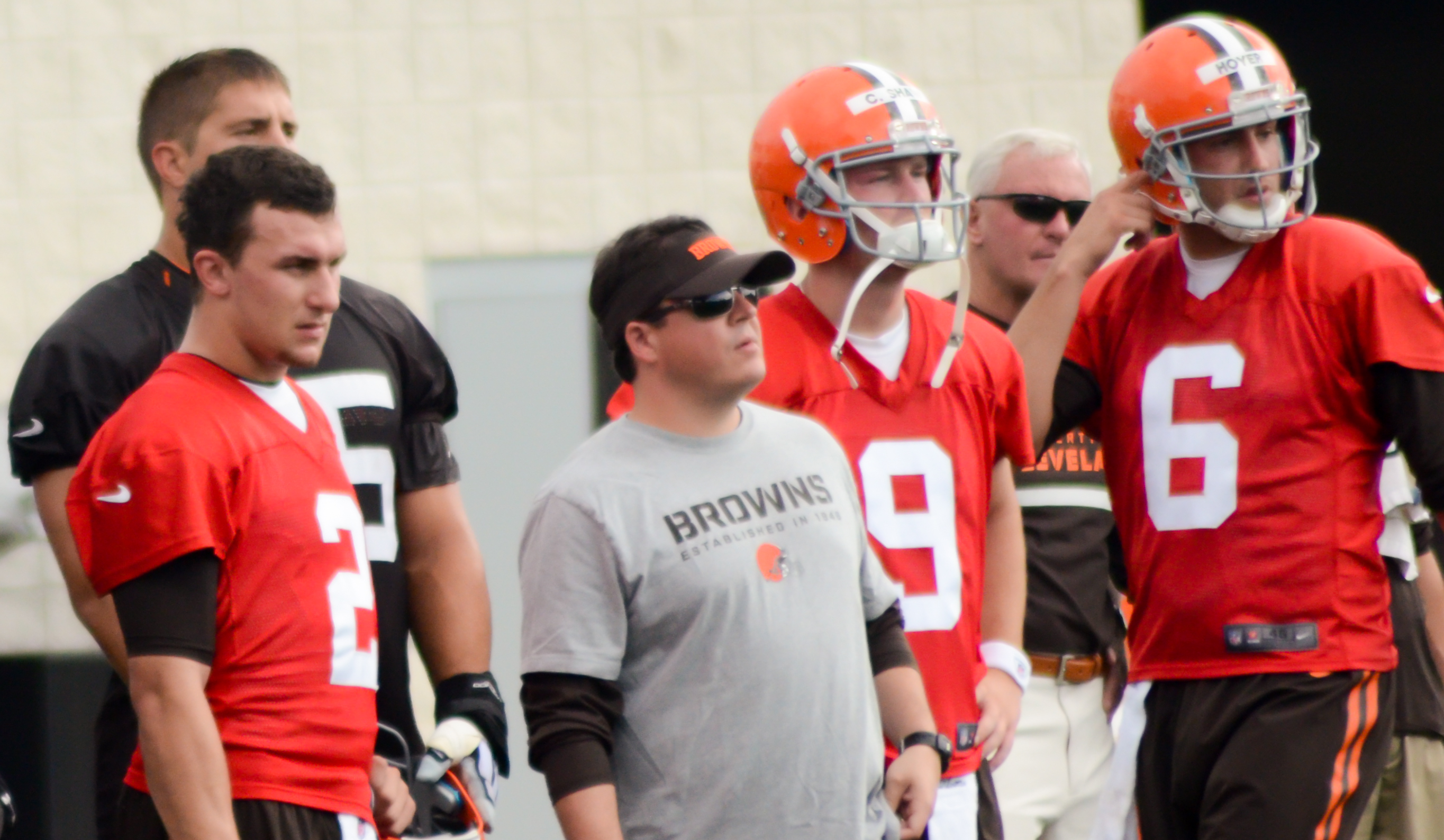 Johnny Manziel (#2) Connor Shaw (#9) Brian Hoyer (#6) and Dowell Loggains at 2014 Cleveland Browns training camp